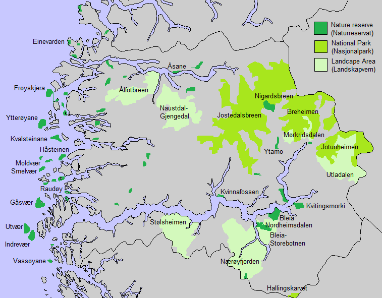 Map of the protected nature areas of Sogn og Fjordane county, Norway, per 2010. Source is